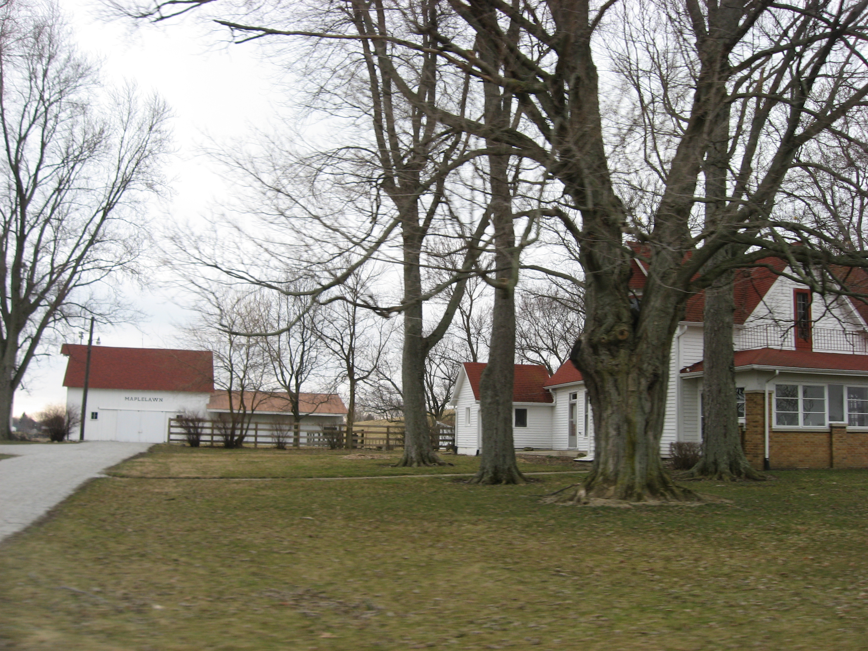 House and barn at the Maplelawn Farmstead, located at 9575 Whitestown Road on the western edge of Zionsville, Indiana, United States. Built in 1860 (house) and 1900 (barn), the farmstead is listed on the National Register of Historic Places.